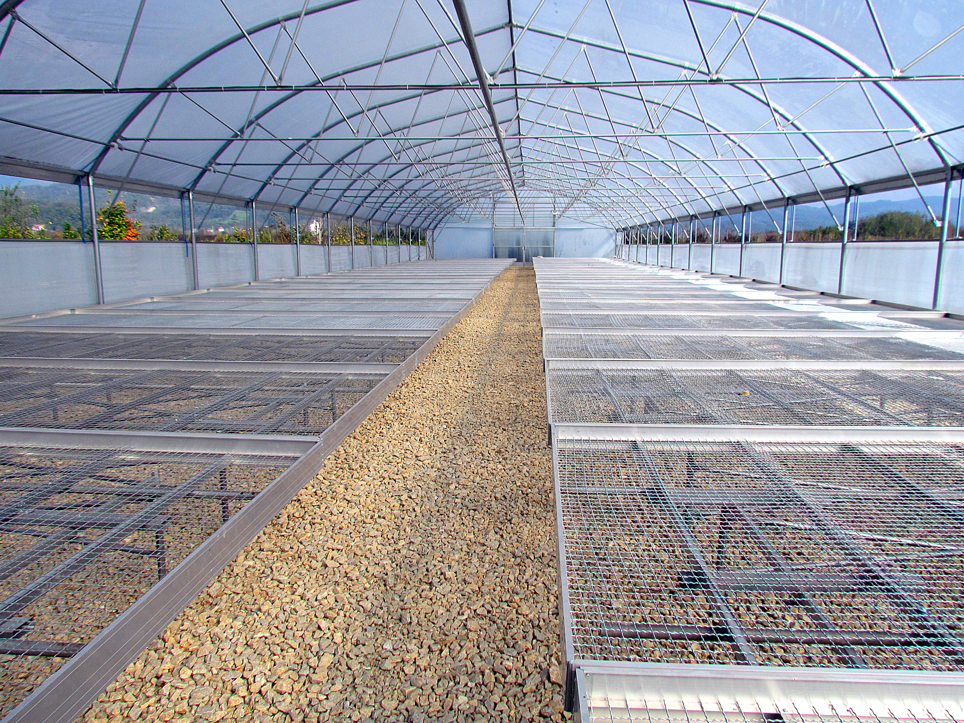 Greenhouse covered with double layer of polyethylene film with air blown between in Pozega (Serbia)